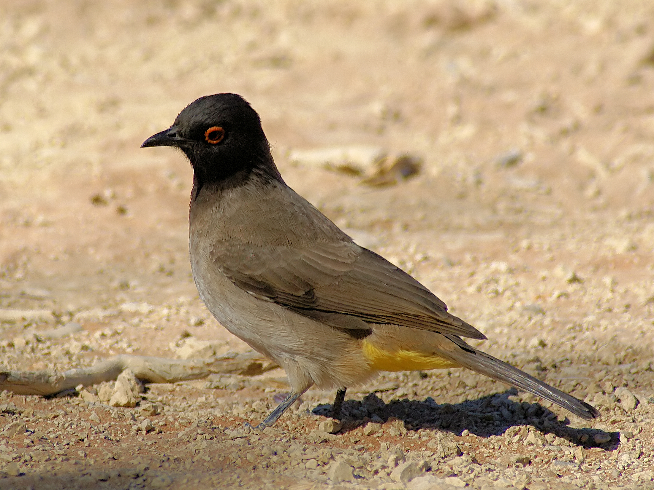 An African Red-eyed Bulbul, at Sossusvlei in the Namib desert, Namibia